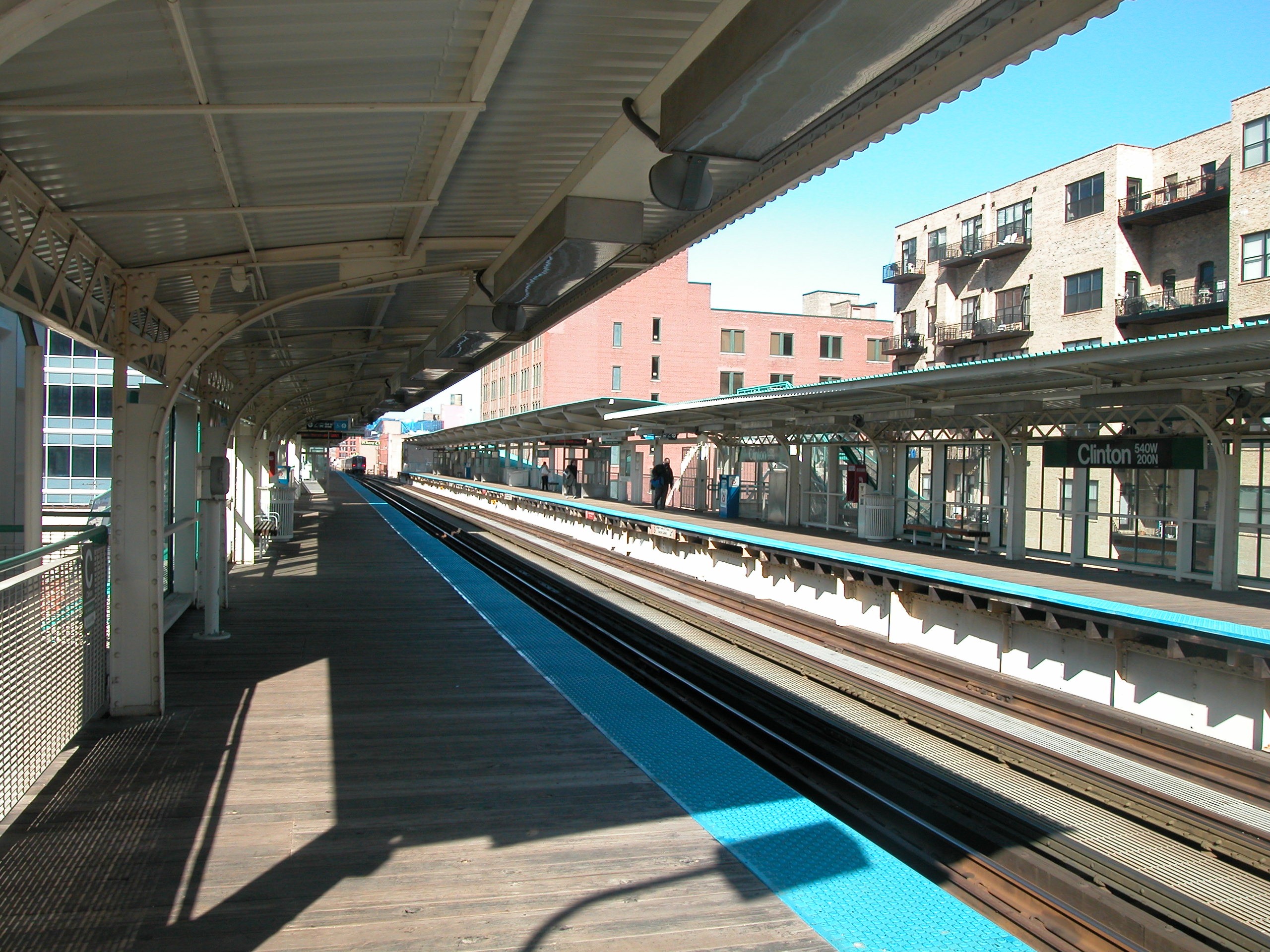 20040329 03 CTA Green Line Clinton St. station